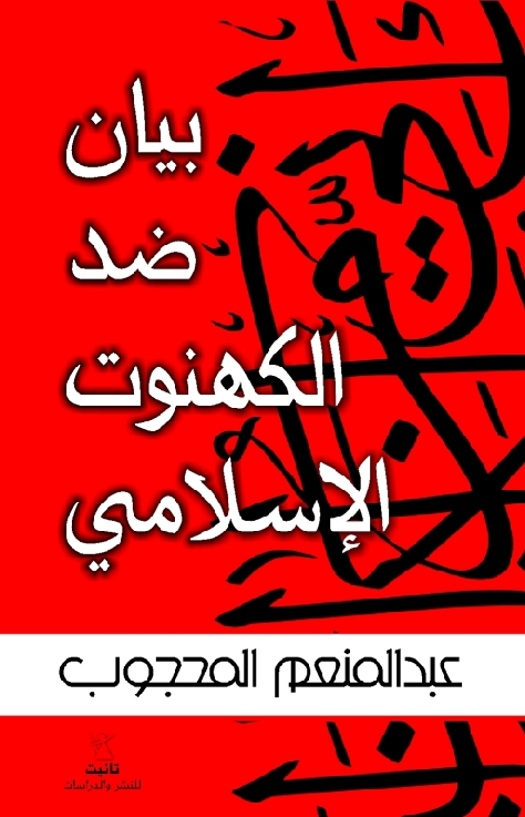 Mahjoub's view about Islam titled "Manifesto against Islamic Priesthood."